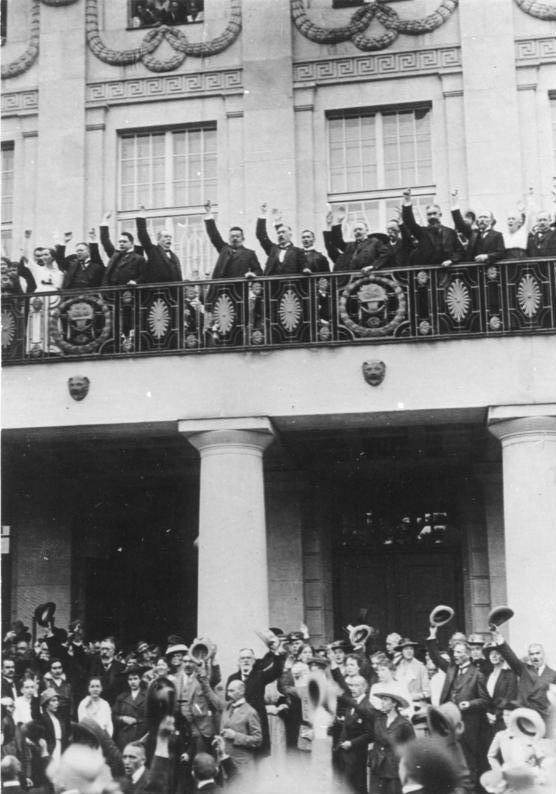 After the swearing-in of the first president of Reich in Weimar: the president of Reich Friedrich Ebert, the chancellor of Reich Constantin Fehrenbach and the members of government are making applaud the republic. August 21st, 1919.